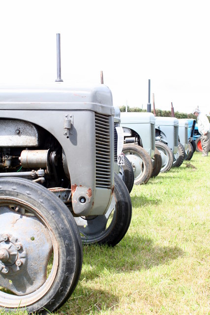 'Fergies' on display A line up of old Massey-Ferguson tractors at St Buryan Vintage Rally.